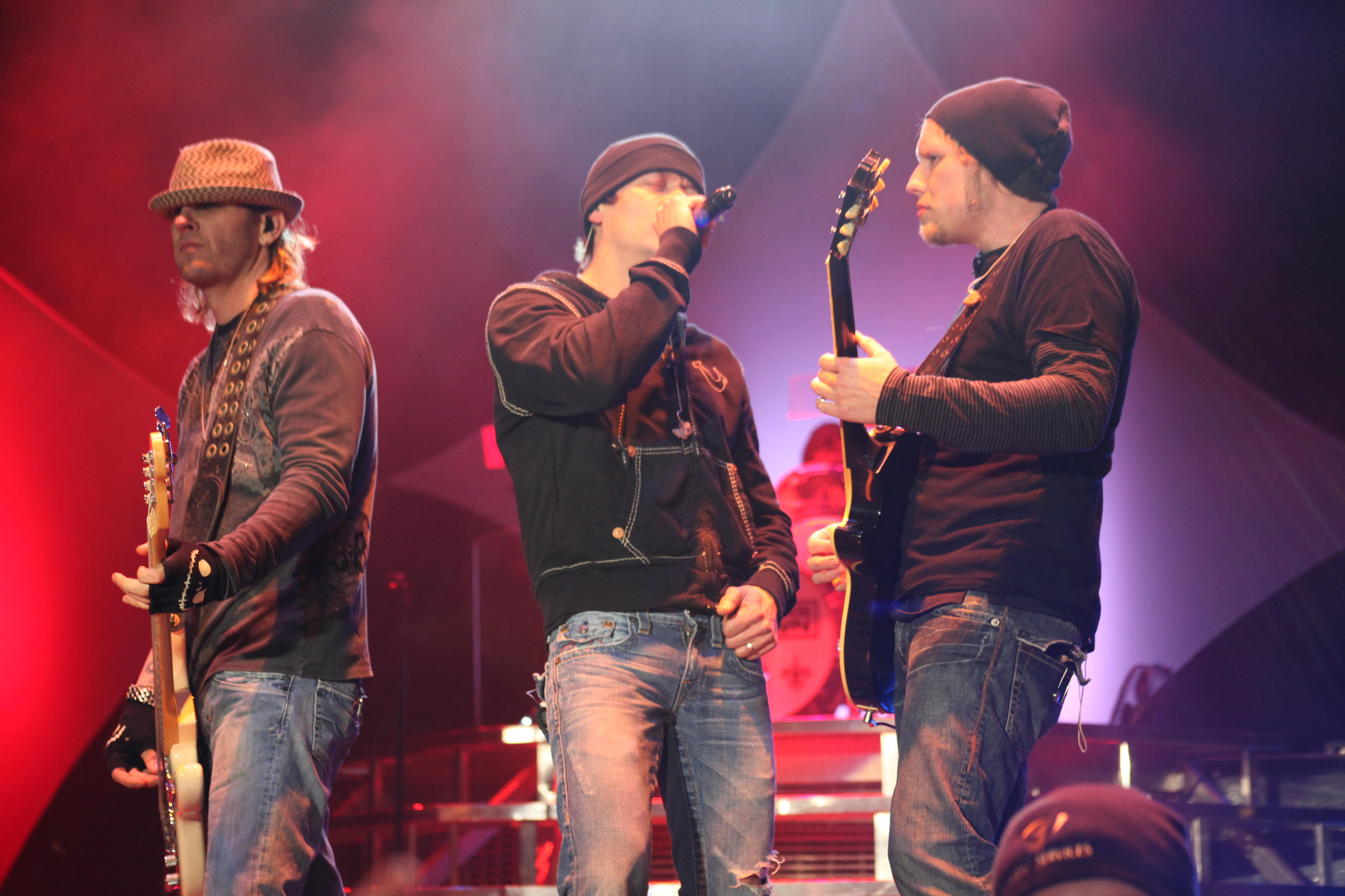 Three Doors Down plays for a crowd that includes participants of Cherry Point’s Single Marine Program in Raleigh, N.C., Jan. 28. The Single Marine Program will take more trips in the near future to places such as Busch Gardens, Williamsburg, Va., and to see the Charlotte Bobcats professional basketball organization.